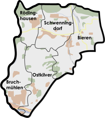 Maps of Kreis Herford (Germany) series. Shows various kinds of information including topographical, demographical, and use of land information for all communities of Kreis Herford and the district of Herford itstelf.